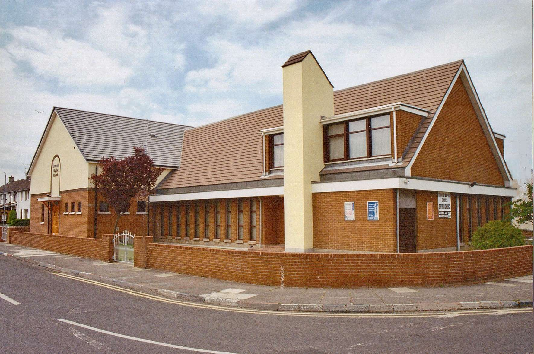 Photgraph of Limavady Baptist church taken from William Street, Limavady.